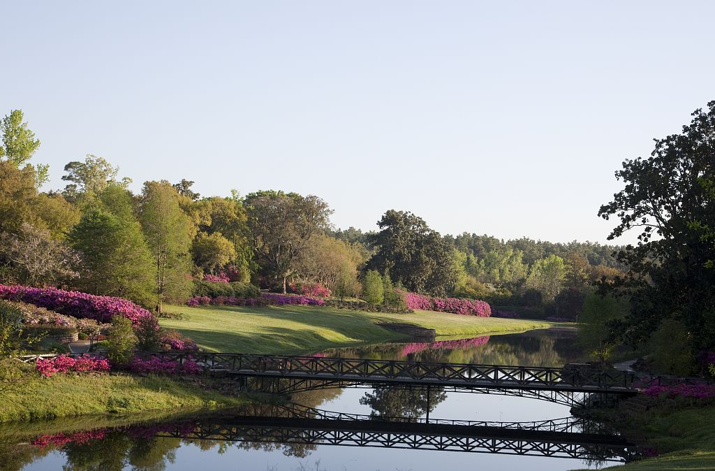 Bellingrath Gardens and Home, the creation of Mr. and Mrs. Walter Bellingrath in Theodore, Alabama